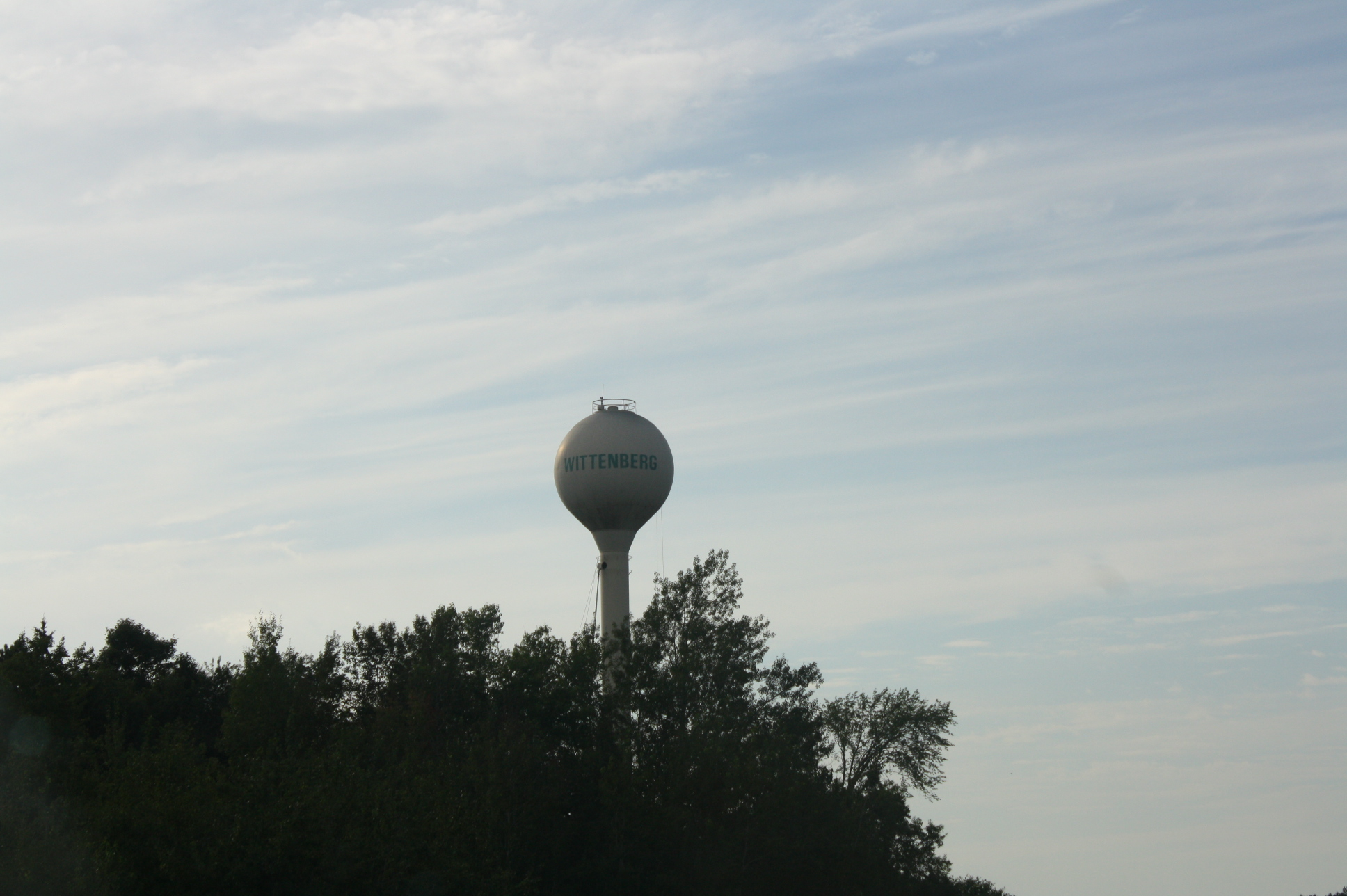 The watertower for Wittenberg, Wisconsin from Wisconsin Highway 29.